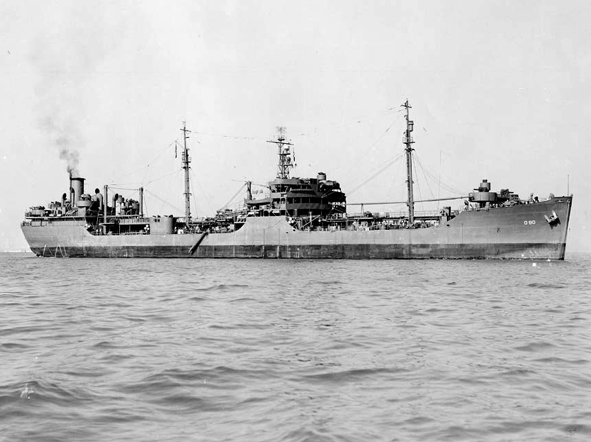 The U.S. Navy fleet oiler USS Escambia (AO-80) near the Mare Island Naval Shipyard, Califronai (USA), in circa October-December 1943. This view shows the ship with her initial armament that included only two 40 mm twin mounts.